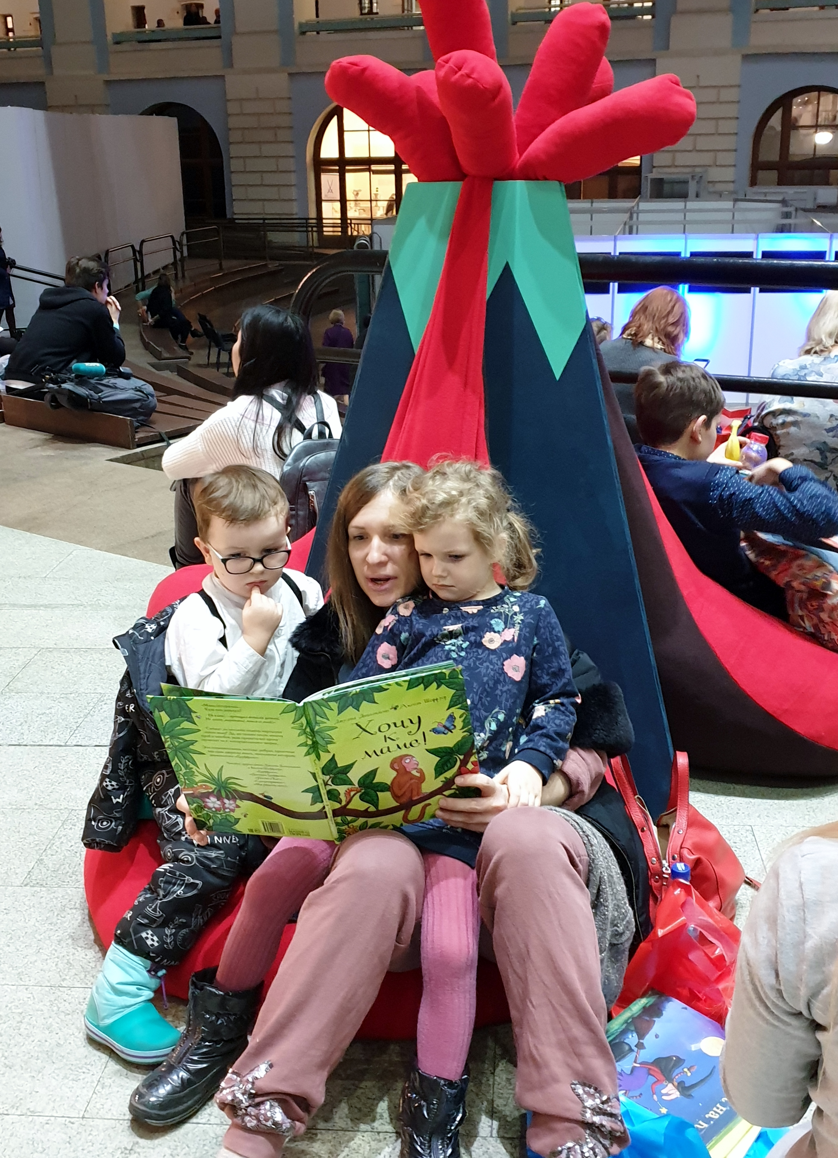 A mother reading a book to her children